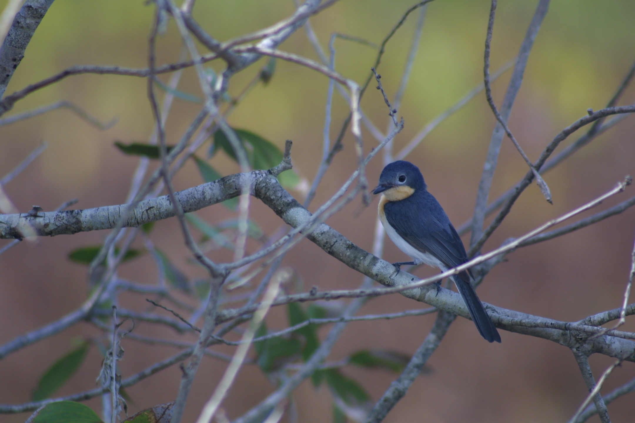 Broad-billed Flycatcher Myiagra ruficollis